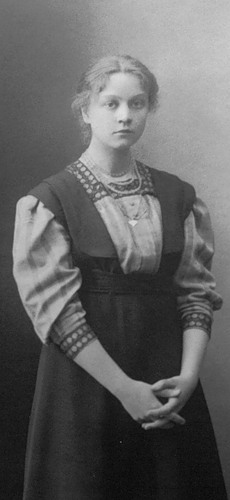 Kamilla Trever in her youth.